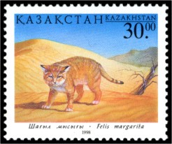 Stamp of Kazakhstan